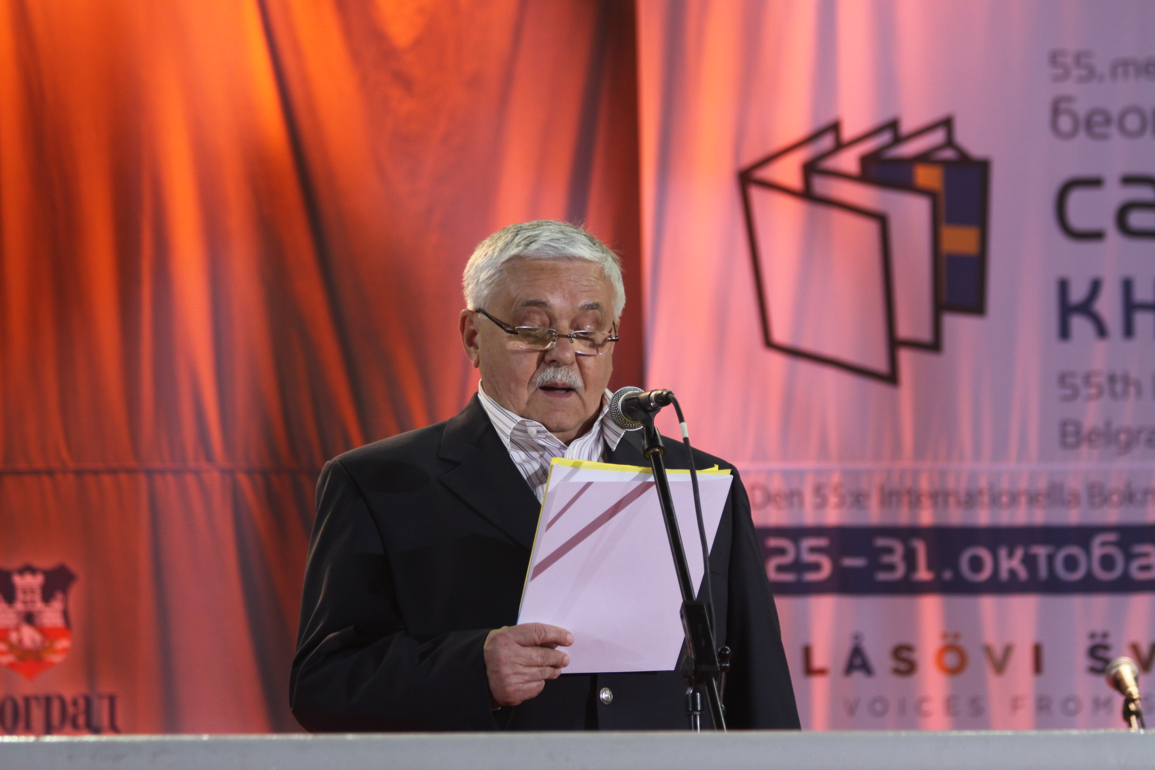 Laszlo Vegel opens the Book Fair 2010